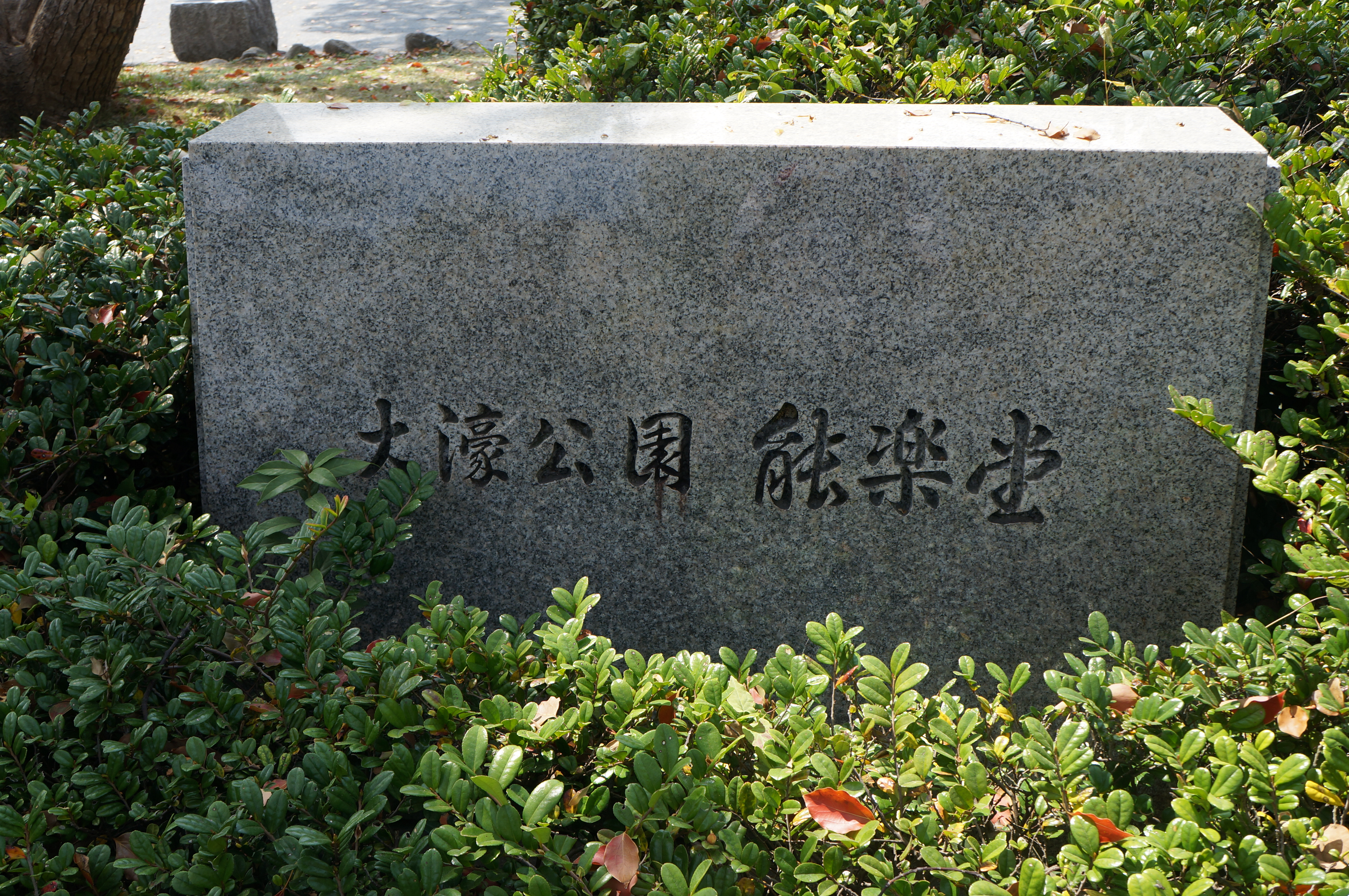 Japan scenes